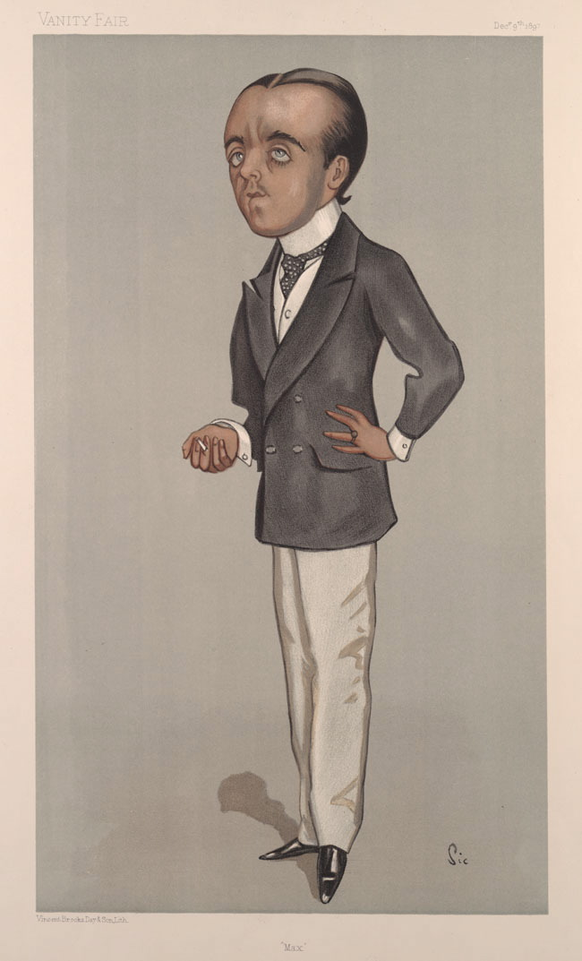 Men of the Day No.696: Caricature of Max Beerbohm. Caption reads: "Max"